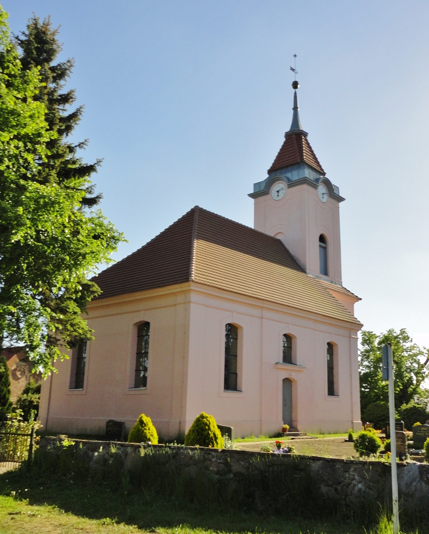 North-eastern view of Keller church, Lindow (Mark) municipality, Ostprignitz-Ruppin district, Brandenburg state, Germany